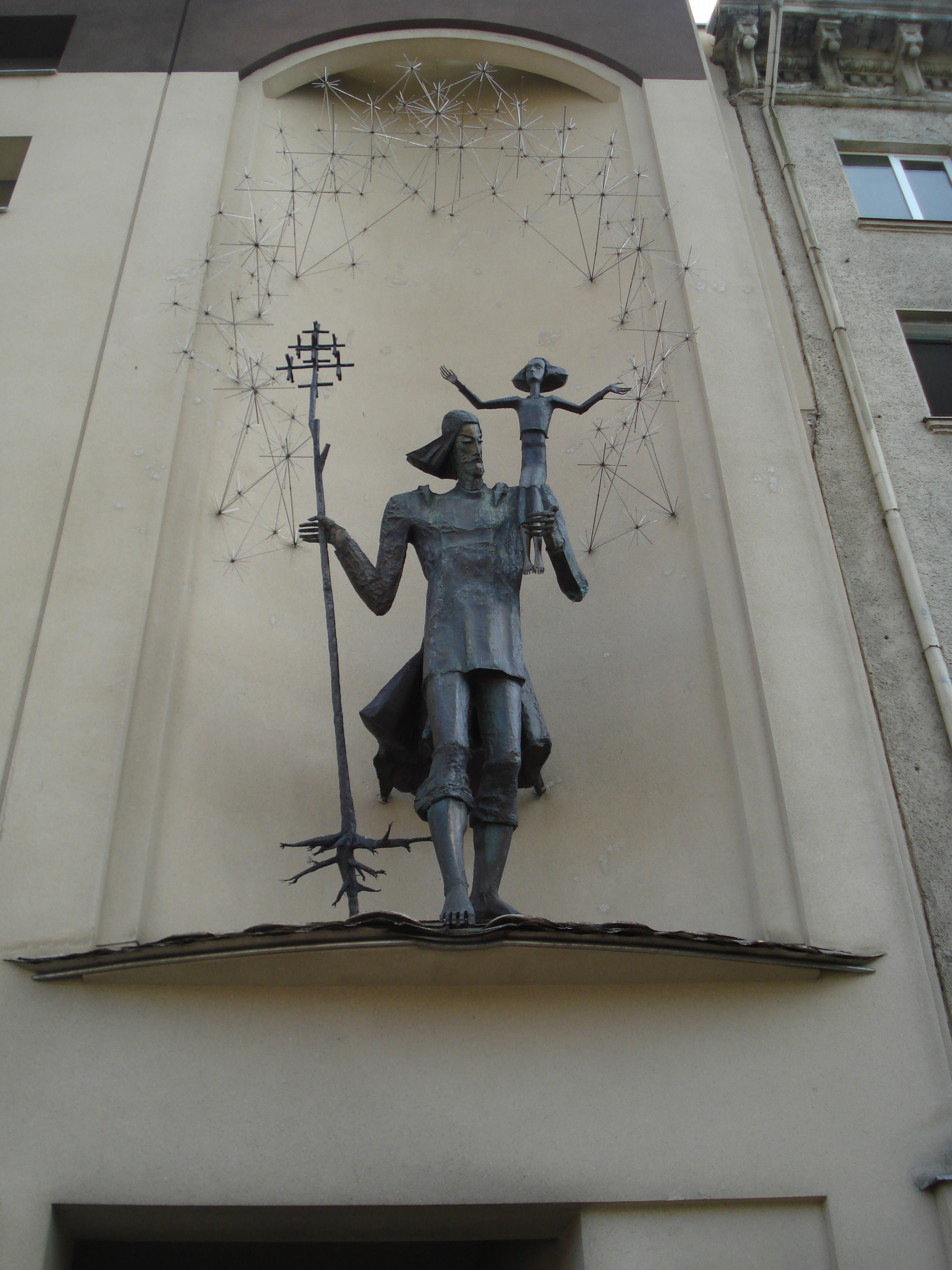 Statue of Saint Christopher by Kazys Kisielis (born 1926) in Vilnius (1996). Gedimino prospektas